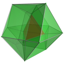 Perspective projection of the 4D tetrahedral cupola into 3D centered on the cuboctahedral cell. Top tetrahedral cell highlighted.